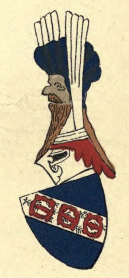 Arms of Sir Walter Leslie from the Armorial de Gelre. Blazon: azure, on a bend ermine three buckles gules. Crest: a saracen's head proper between two wings argent.